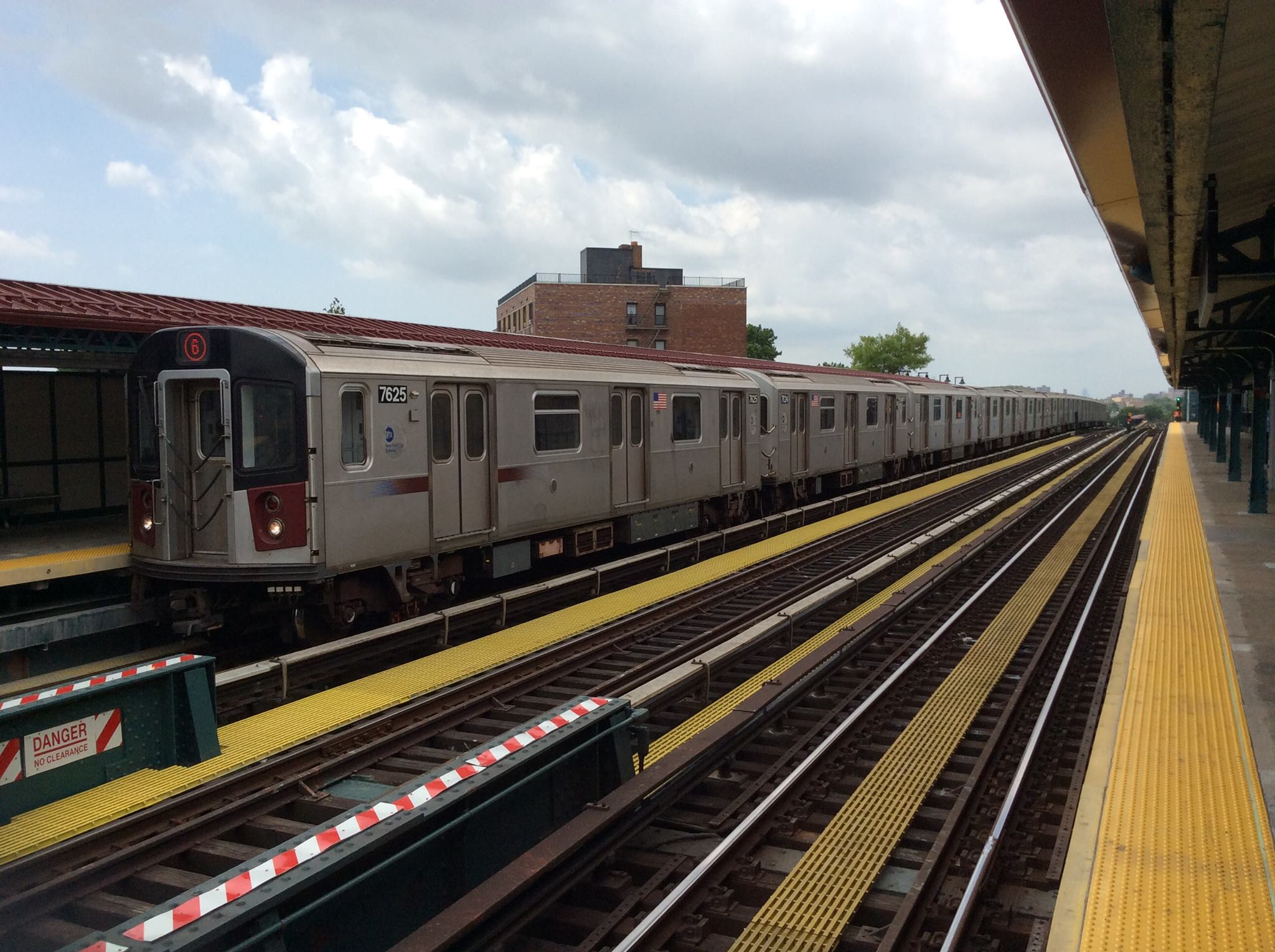 Northbound 6 train entering Buhre Av.